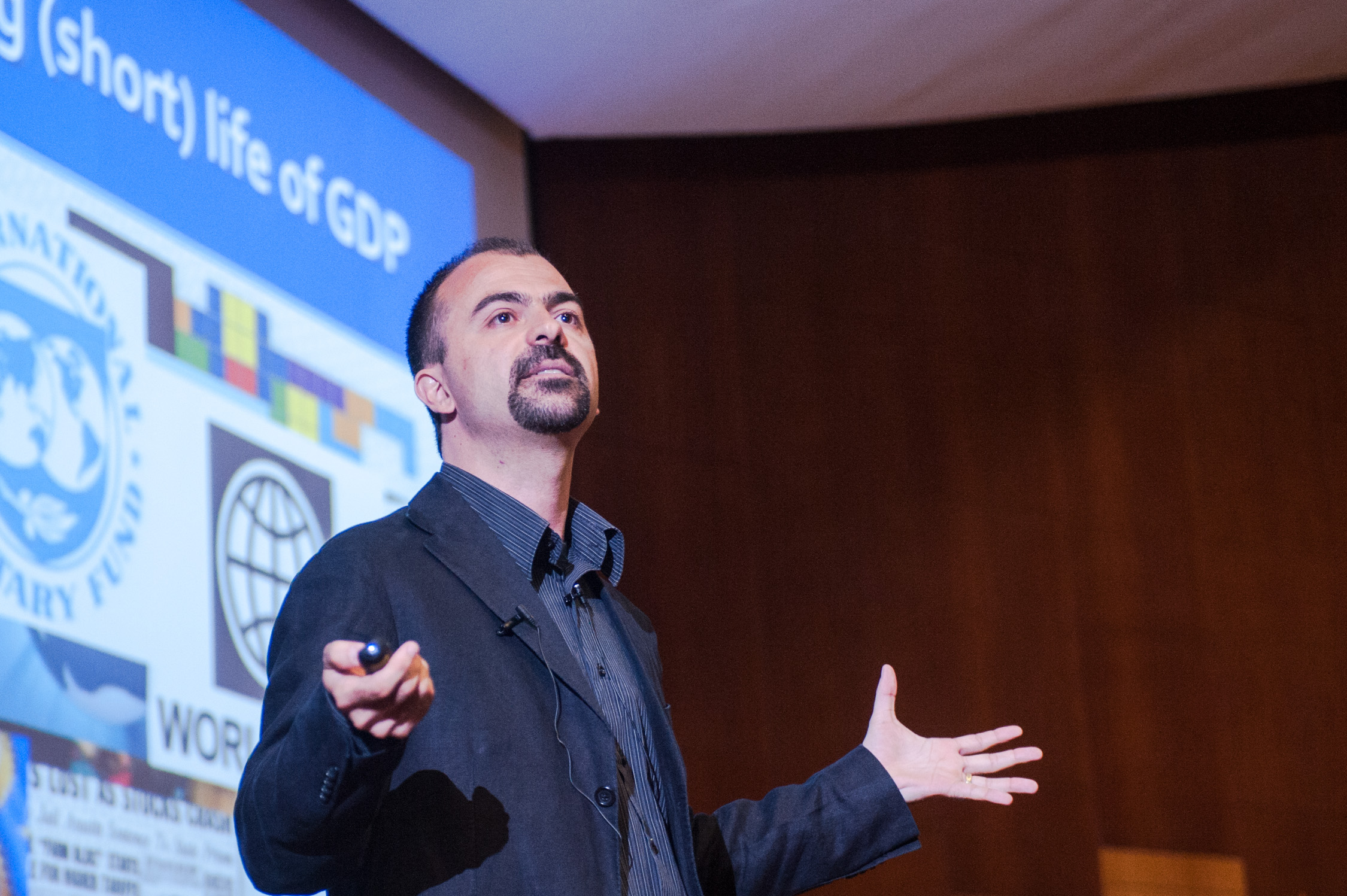 Lorenzo Fioramonti giving a speech